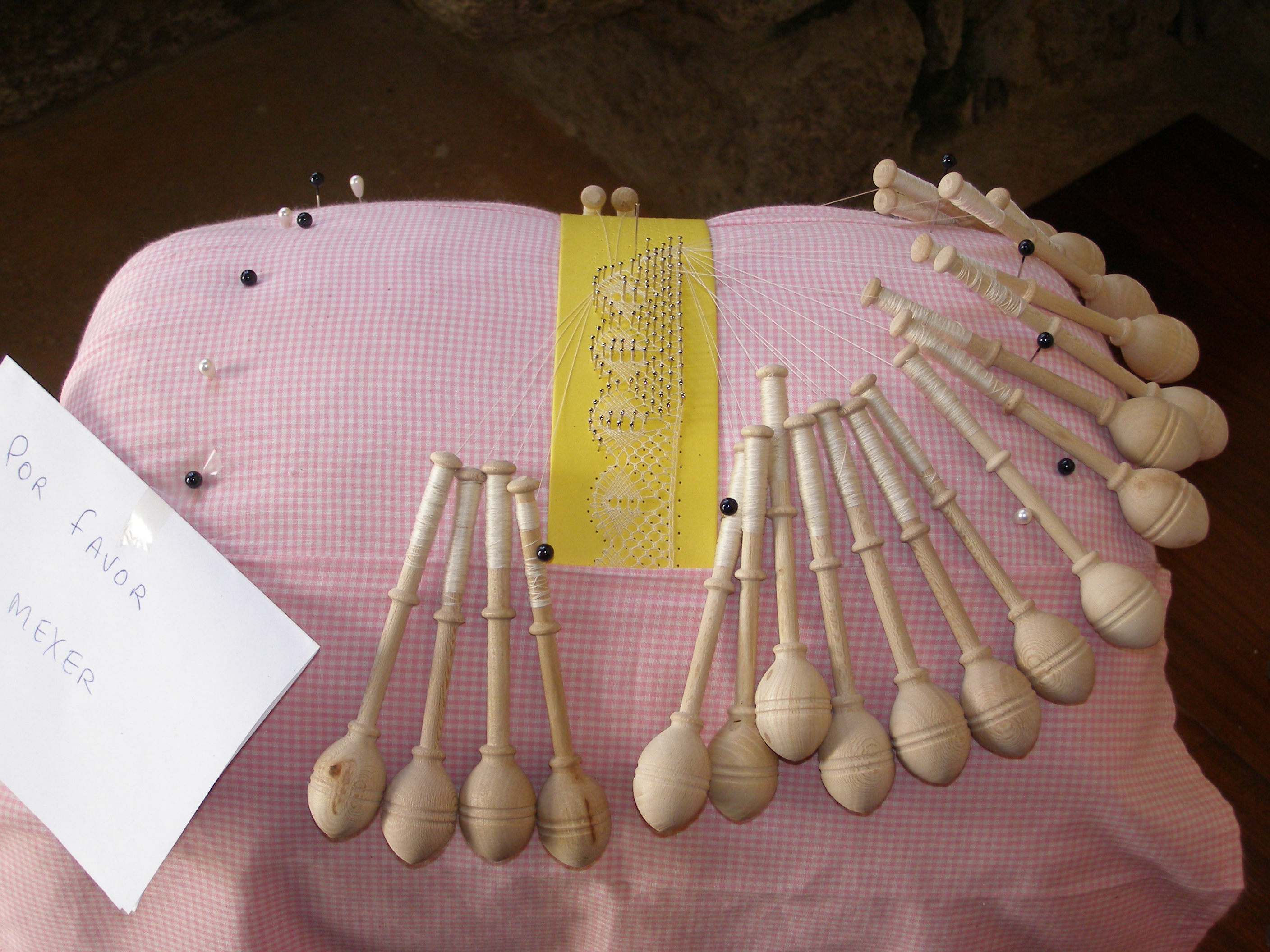 Bilros craftwork pillow